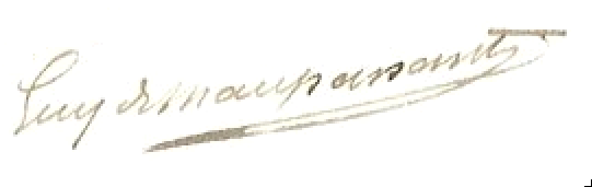 Signature of Guy De Maupassant